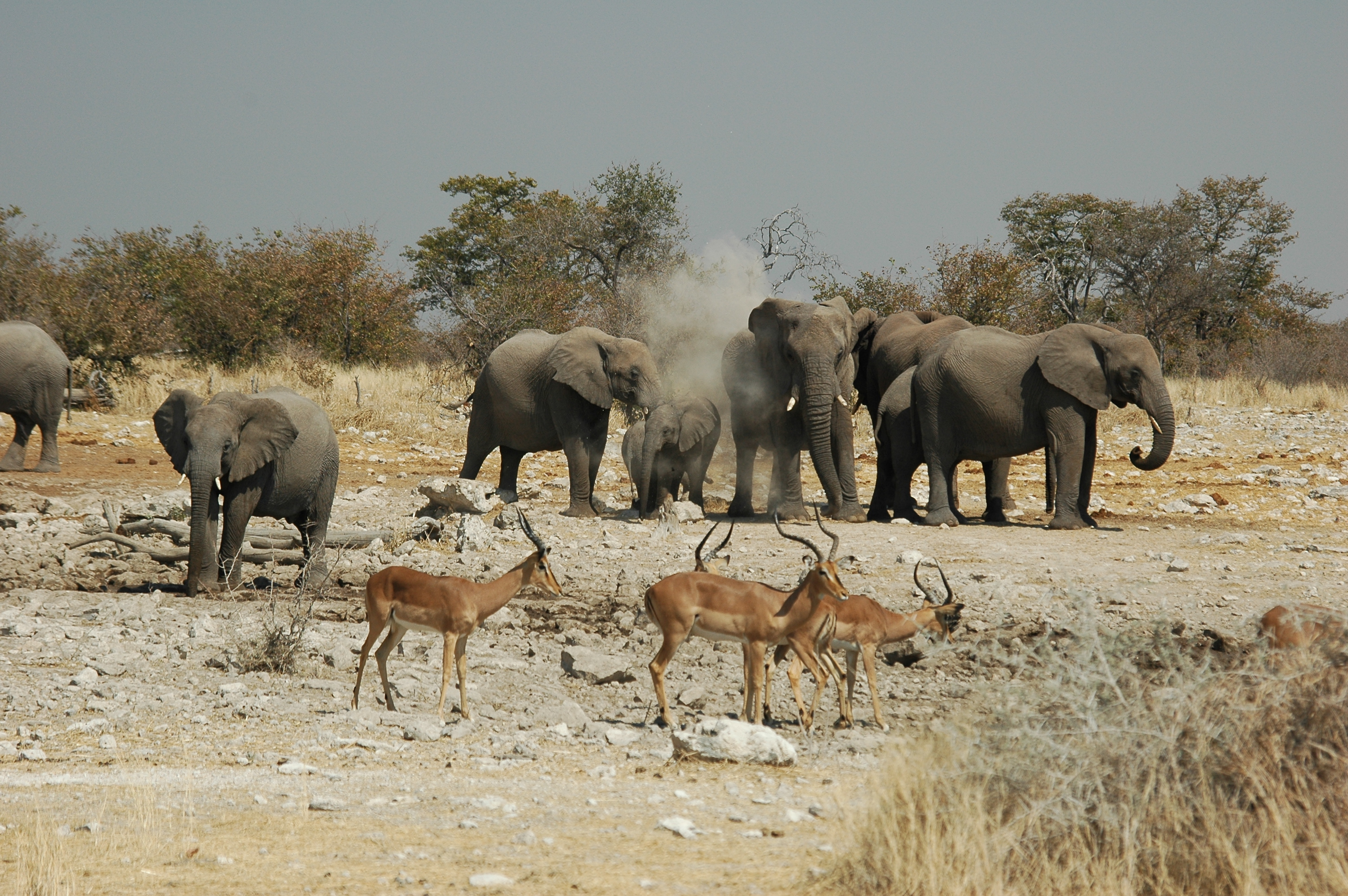 Namibie Etosha National Park Eléphant Photographie prise par GIRAUD Patrick